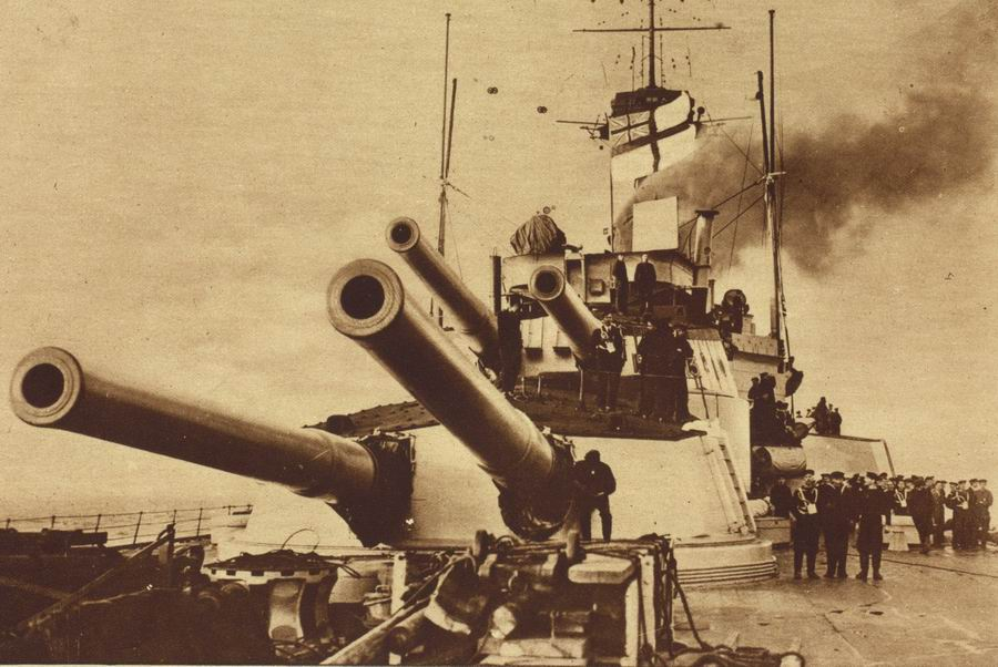 Aft guns of HMS Hercules, sometime before 1919.